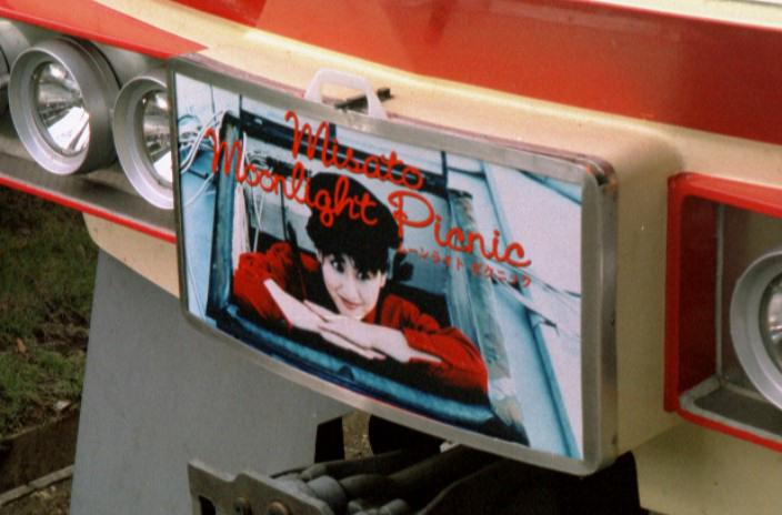 Train head mark of "Misato Train" at Seibu Studium Sta.